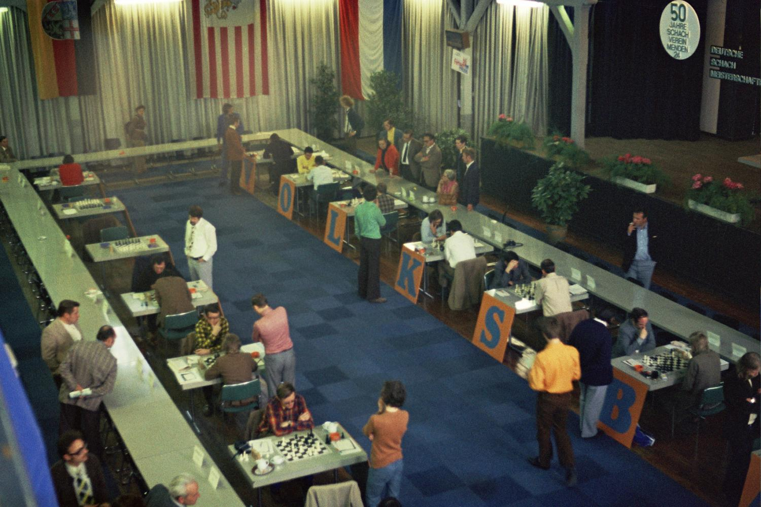 Tournament hall of the German Chess Championship